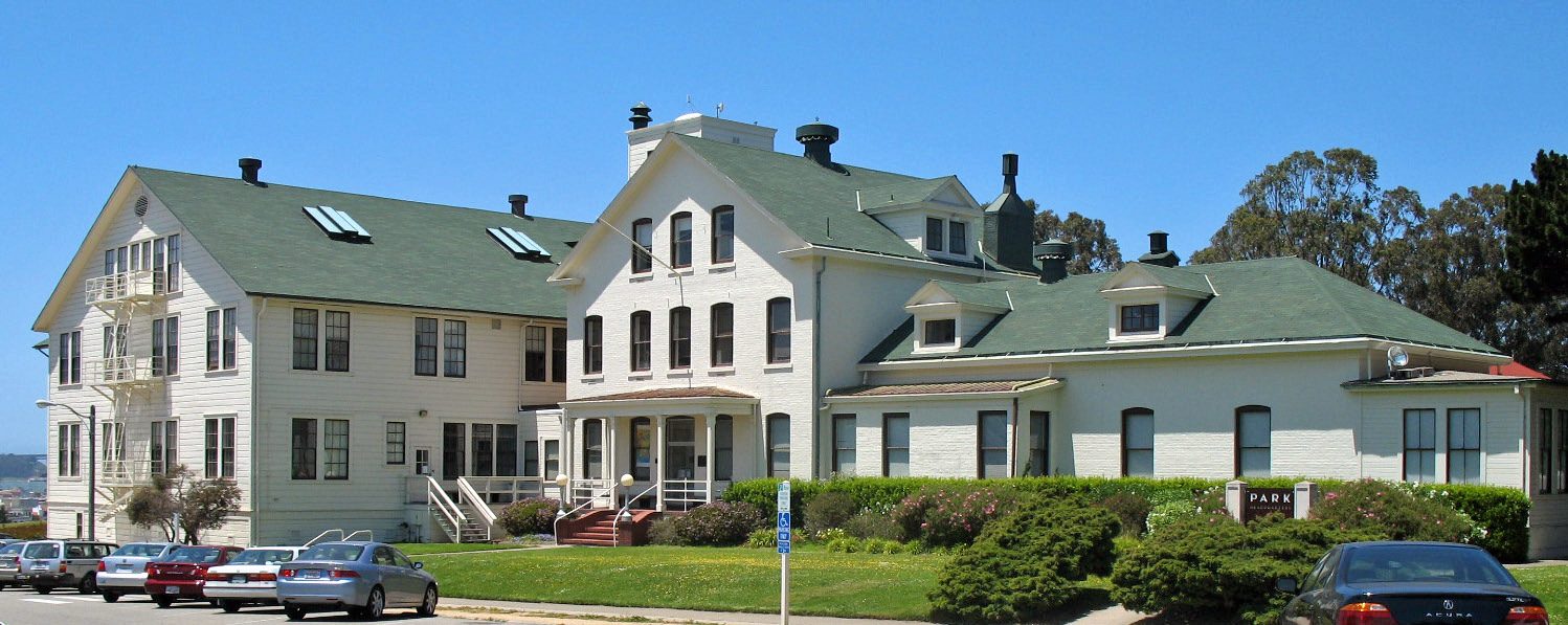 National Register of Historic Places in San Francisco, California. San Francisco Maritime National Historic Site, Fort Mason, Building 201, San Francisco, California, USA. Photographed 2008-06-01 from the south side of MacArthur Ave near intersection with Franklin St.